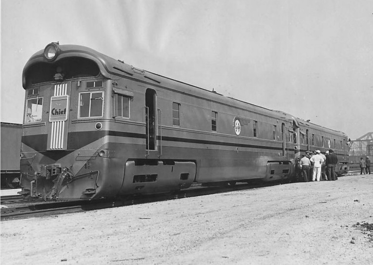 Photo of the Santa Fe's new diesel locomotive for the Super Chief.